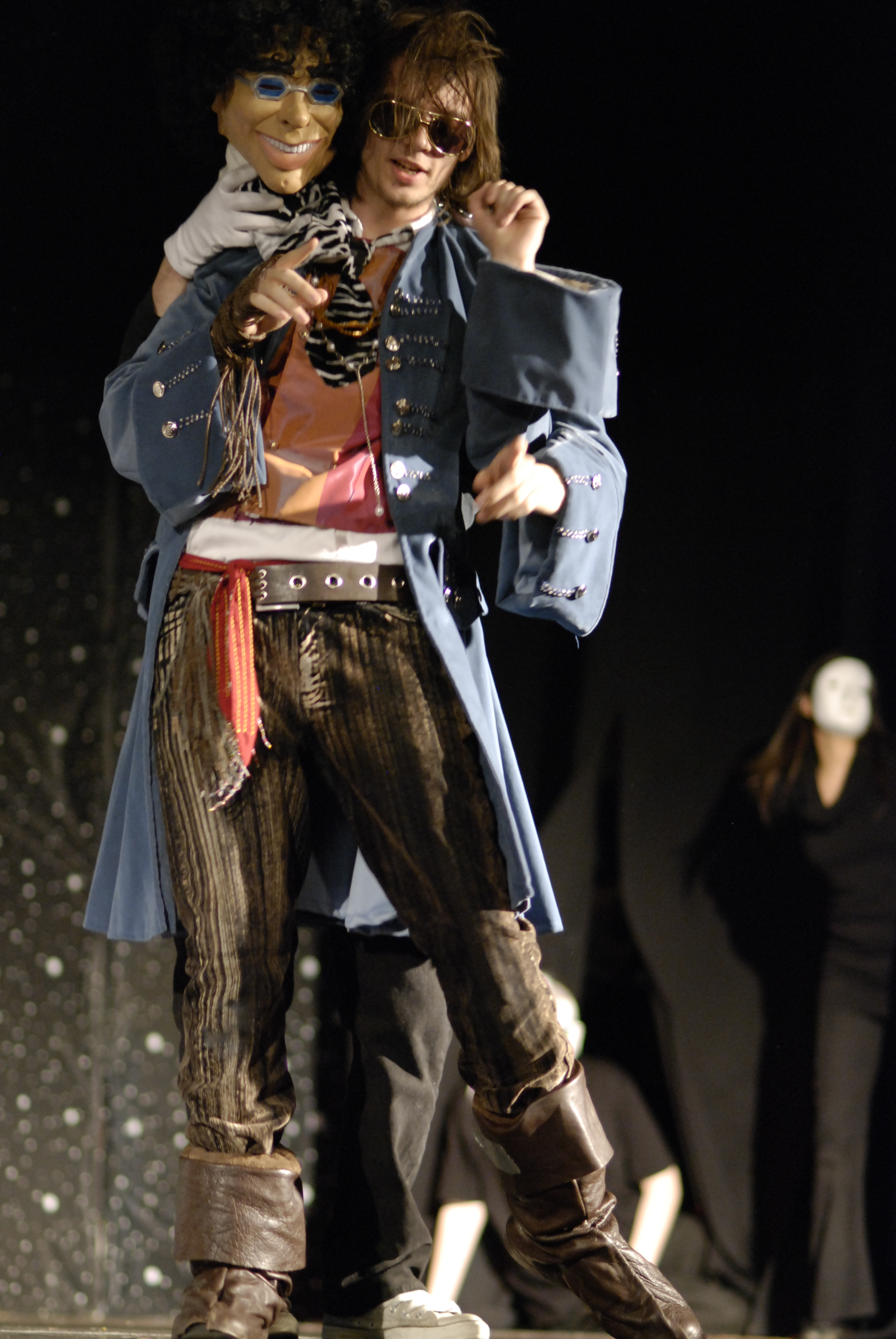 Adam Pope playing Zaphod Beeblebrox in an Amateur Production of The Hitchhikers Guide To The Galaxy, 14/03/08